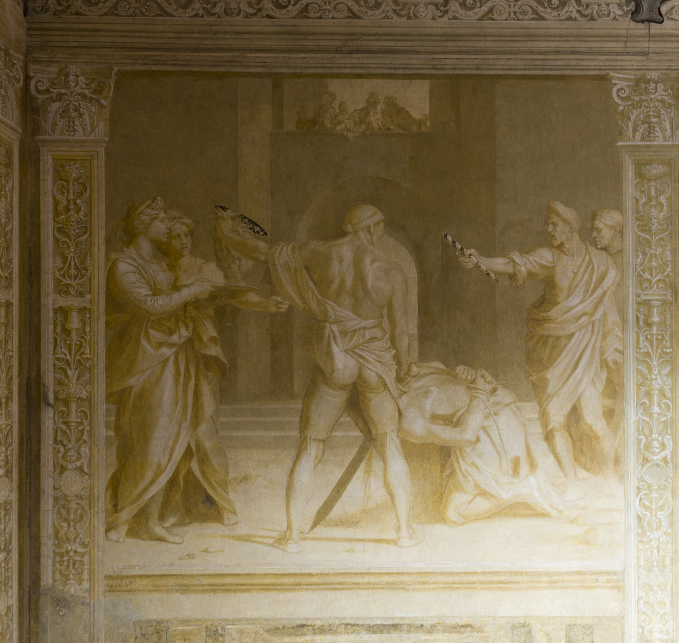 "The Beheading of St. John the Baptist" by Andrea del Sarto